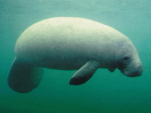 A West Indian Manatee, a member of Order Sirenia in Florida waters.